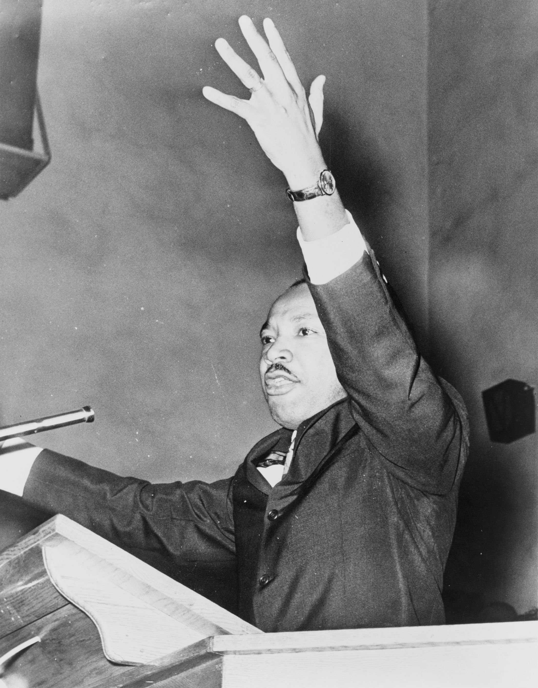 Martin Luther King, Jr., half-length portrait, facing left, with left arm raised, at freedom rally, Washington Temple Church / World Telegram & Sun photo by O. Fernandez.